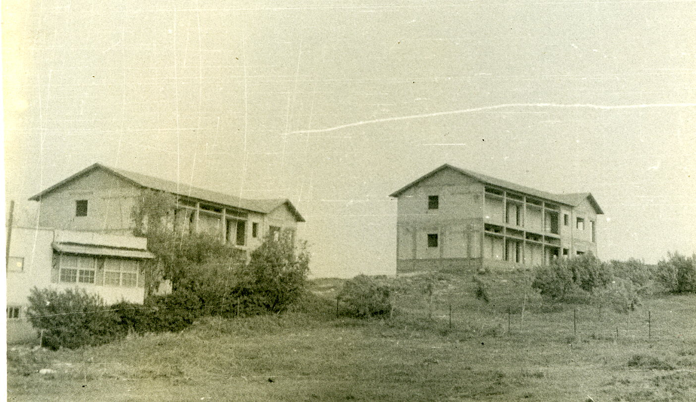 The first two buildings in the Authors Hill